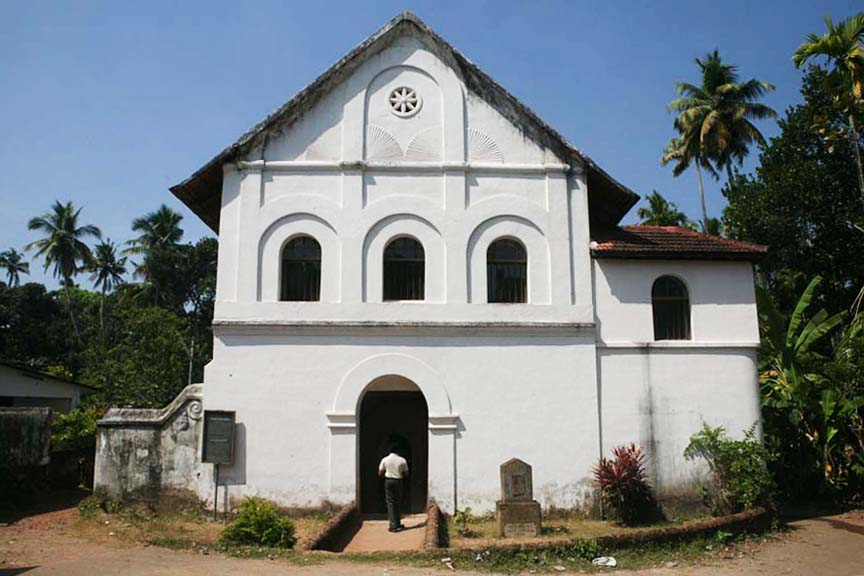 Jewish place of worship in chendamangalam